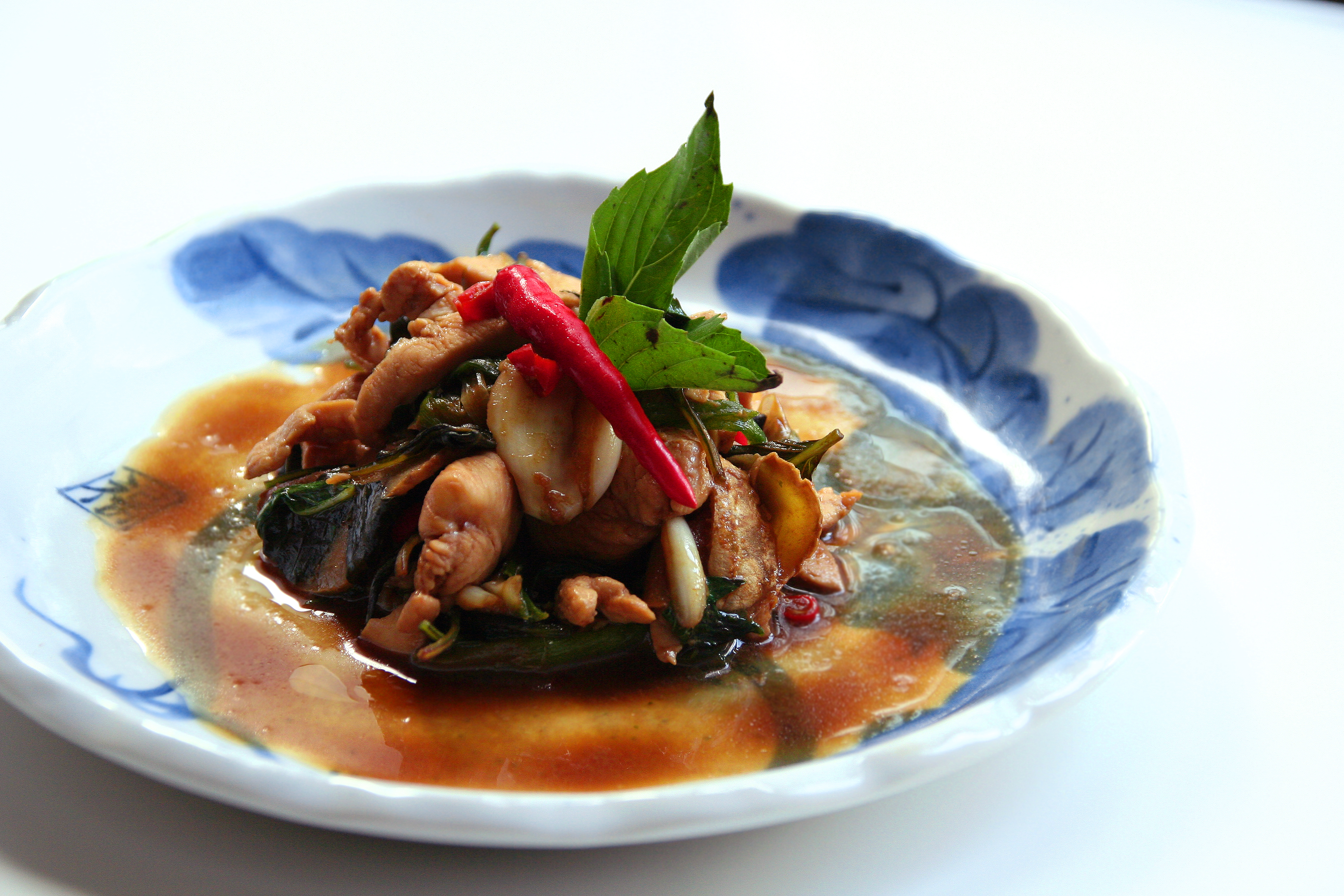 A plate of san bei ji